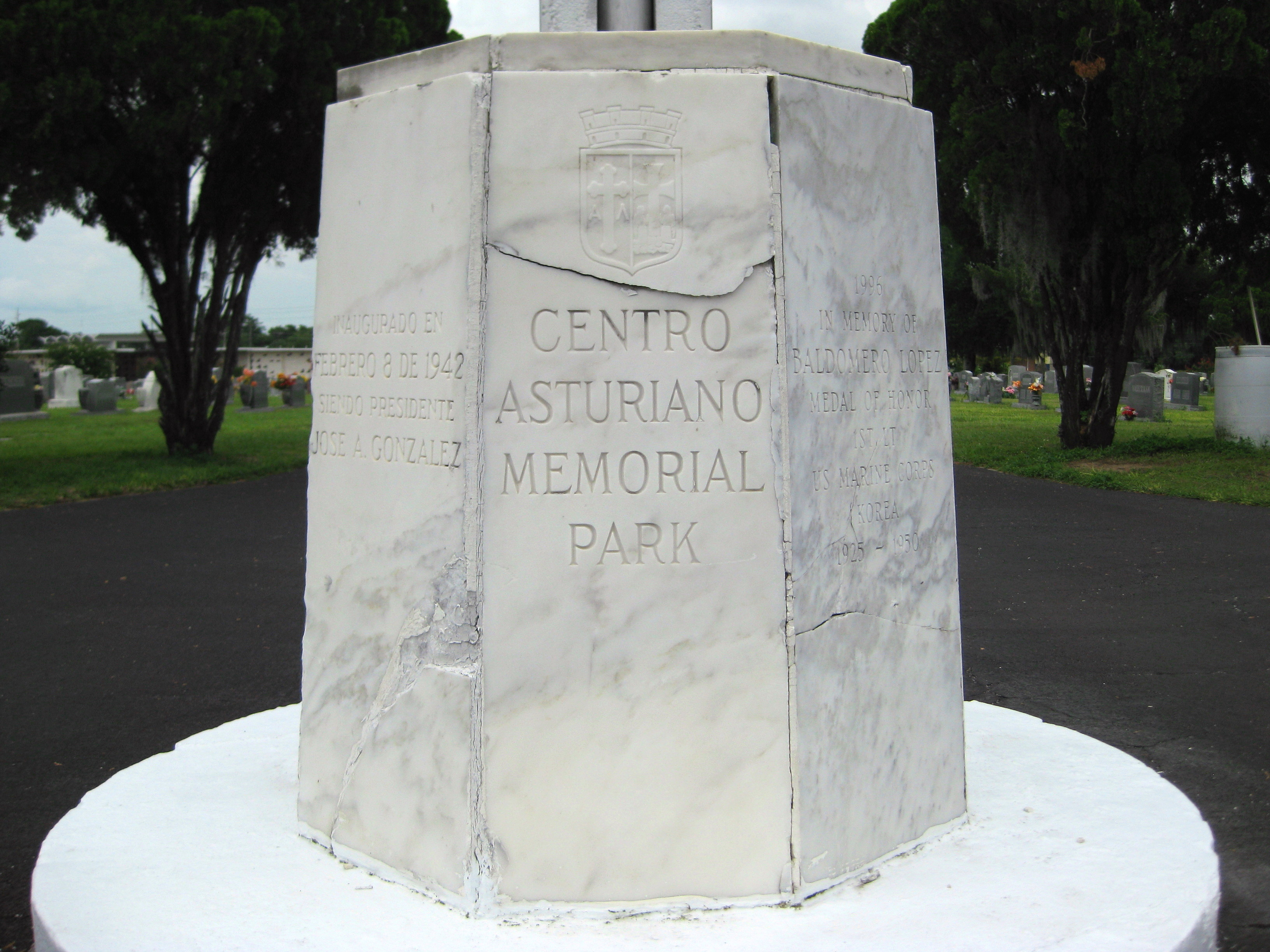 Monument at the base of the flagpole at the Centro Asturiano Memorial Park Cemetery in Hillsborough County, Florida, USA.